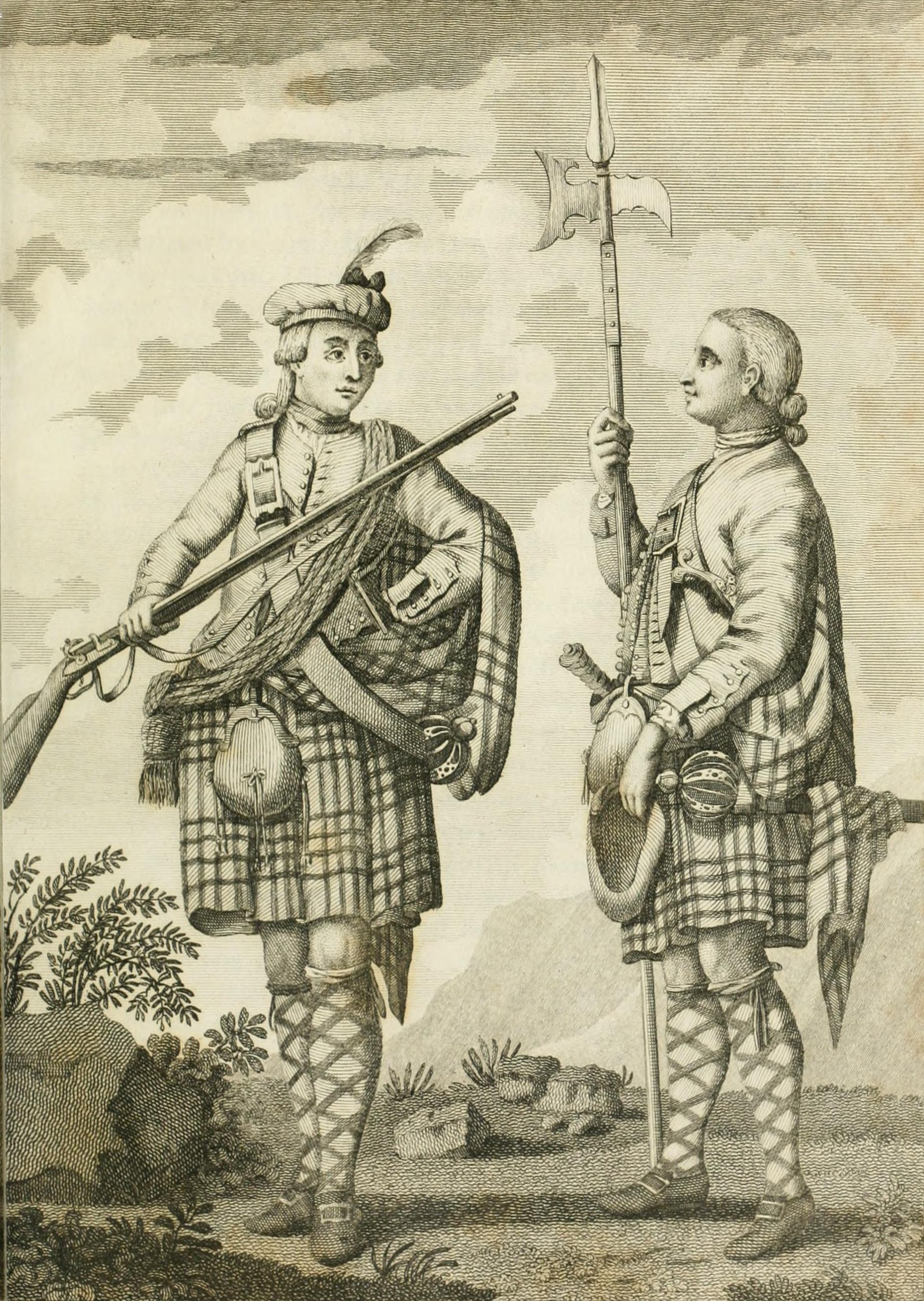 An officer and serjeant of a Highland regiment.